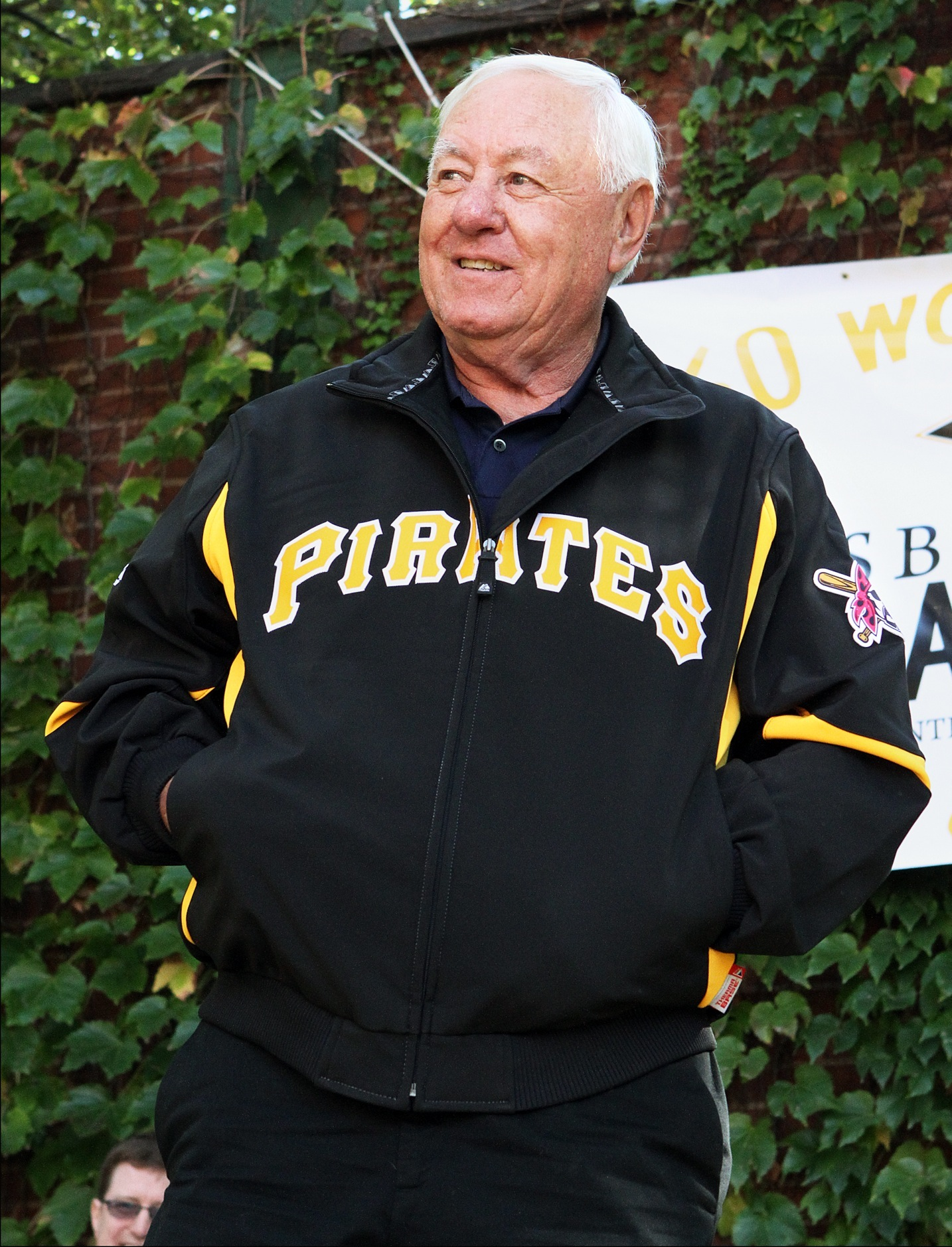 On October 13, 1960 Bill Mazeroski hit a walk off home run in Game 7 of The World Series to defeat the New York Yankees 10-9. 50 years later Pirates fans gathered at the remains of Forbes Field to honor members of the 1960 Championship team and listen to the original radio broadcast of Game 7 and Mazeroski's historic home run.